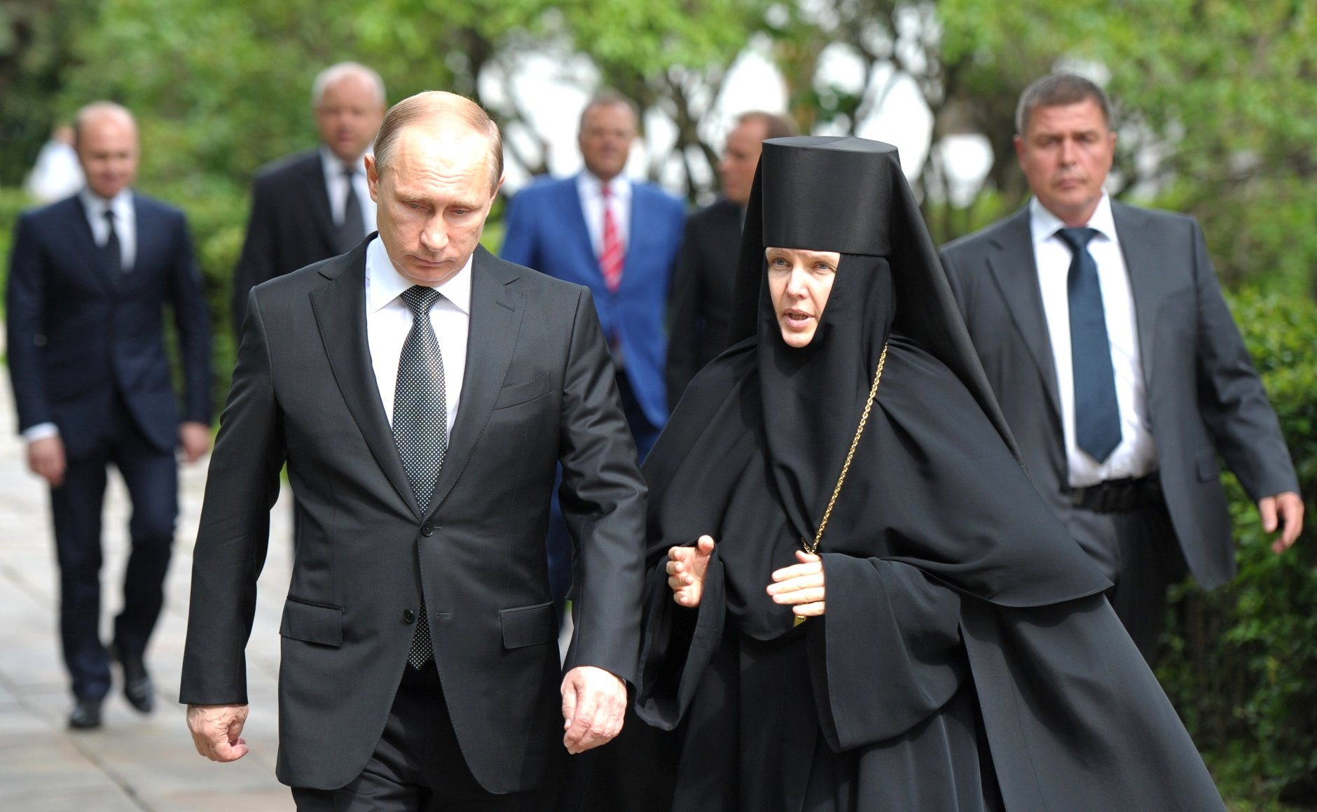 Farewell to Yevgeny Primakov